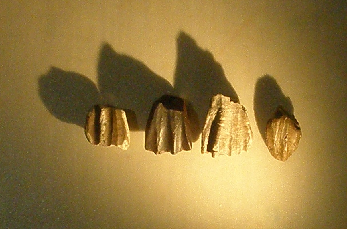 Took the photo at Museo di Storia Naturale di Venezia